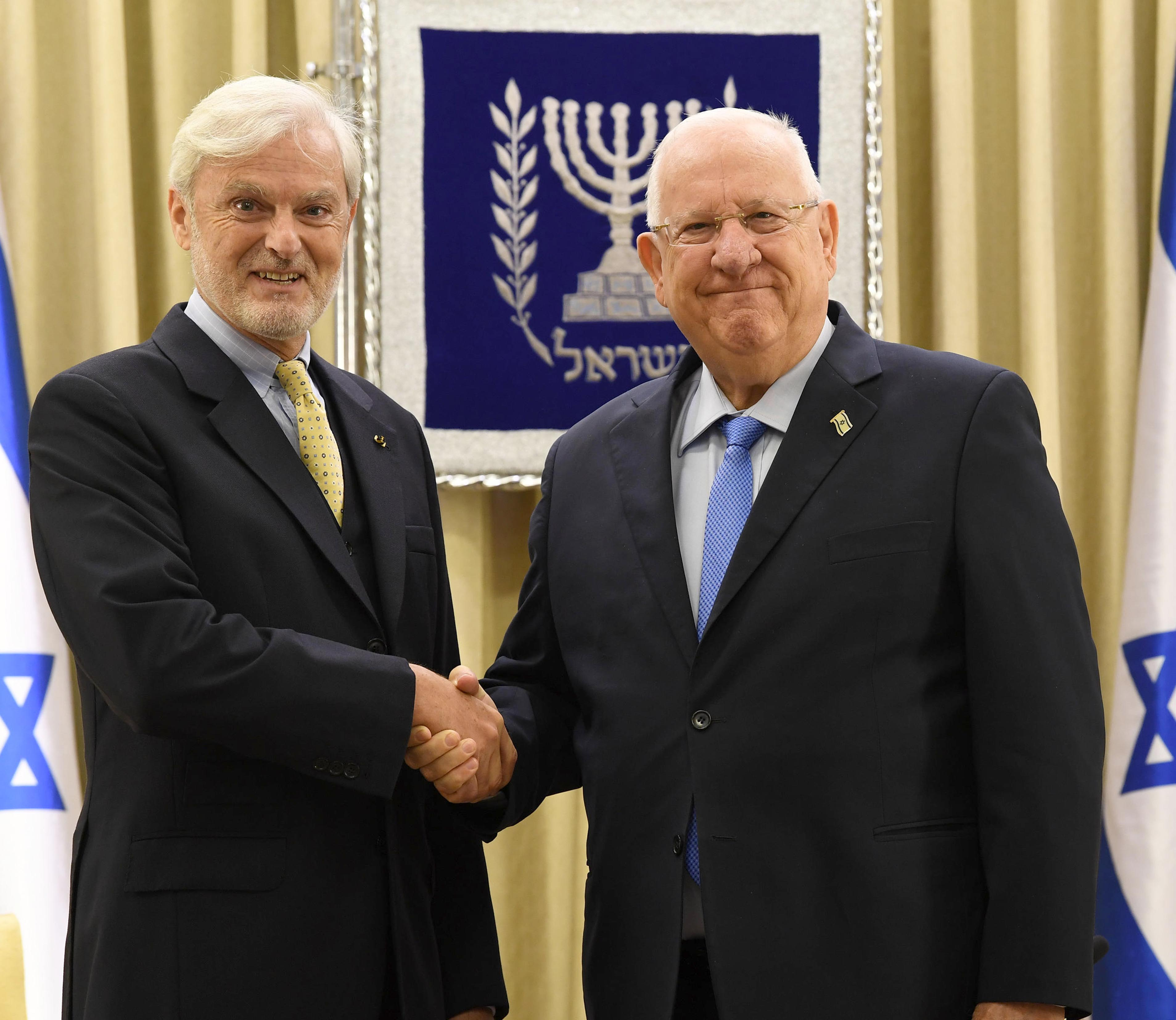 President Reuven Rivlin receives the credentials of the new ambassadors from Sweden, Portugal, Uruguay and the Vatican - upon their entry as ambassadors of their countries in Israel. Wednesday, November 29, 2017. Photo Credit: Mark Neyman / GPO.